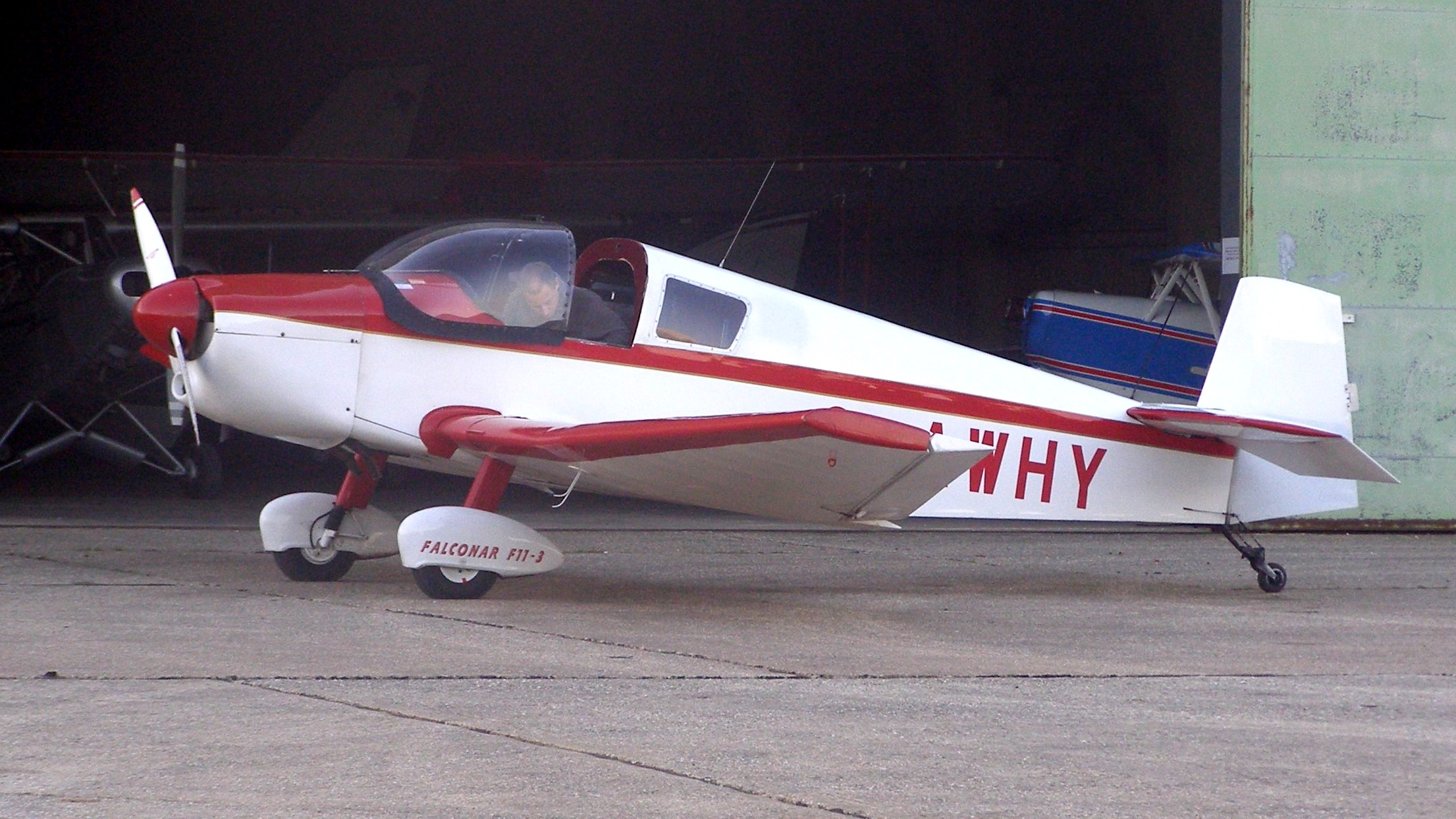 A Falconar F-11-3 light aircraft registered in the United Kingdom as G-AWHY. At Goodwood Aerodrome, Sussex, England in 2010. Homebuilt in the United Kingdom in 1995 with plans from Falconar in Canada the design was based on the Jodel D11.